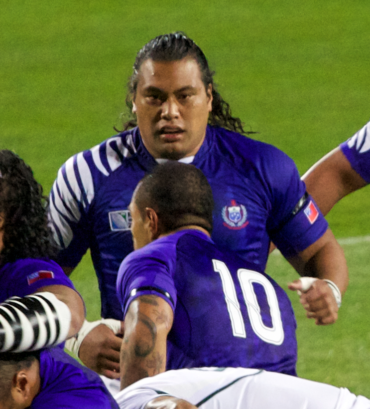 Samoan rugby union player Census Johnston during 2011 Rugby World Cup match against South Africa.